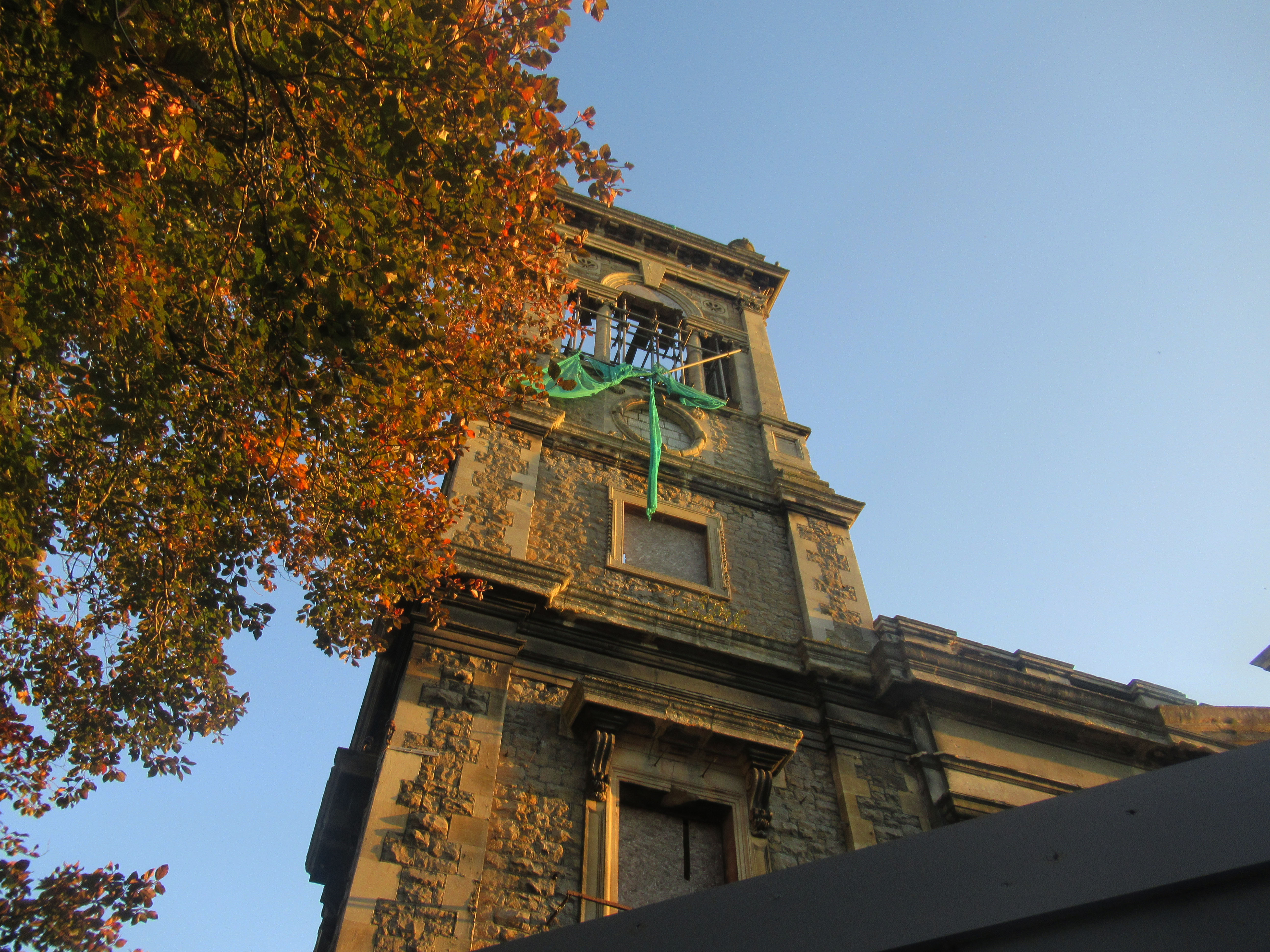 locarno, swindon's old town hall